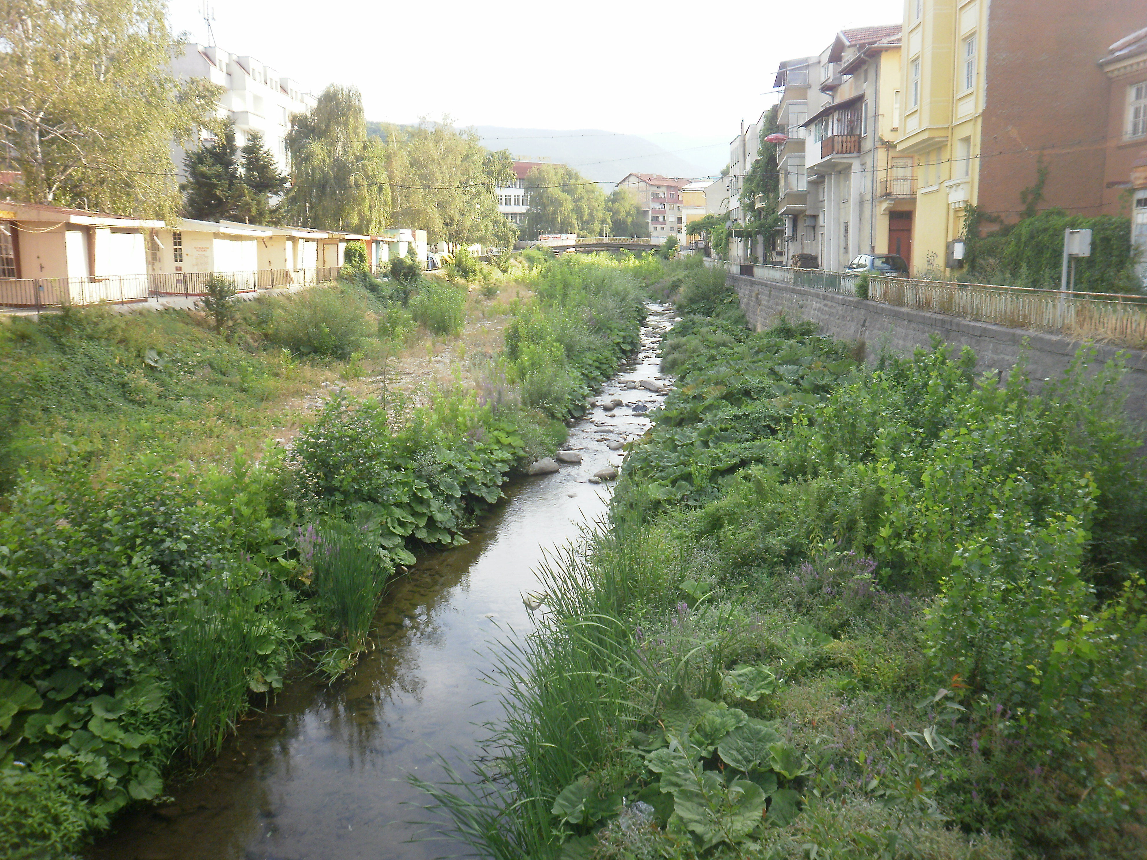 Stara reka, Peshtera, Bulgaria.